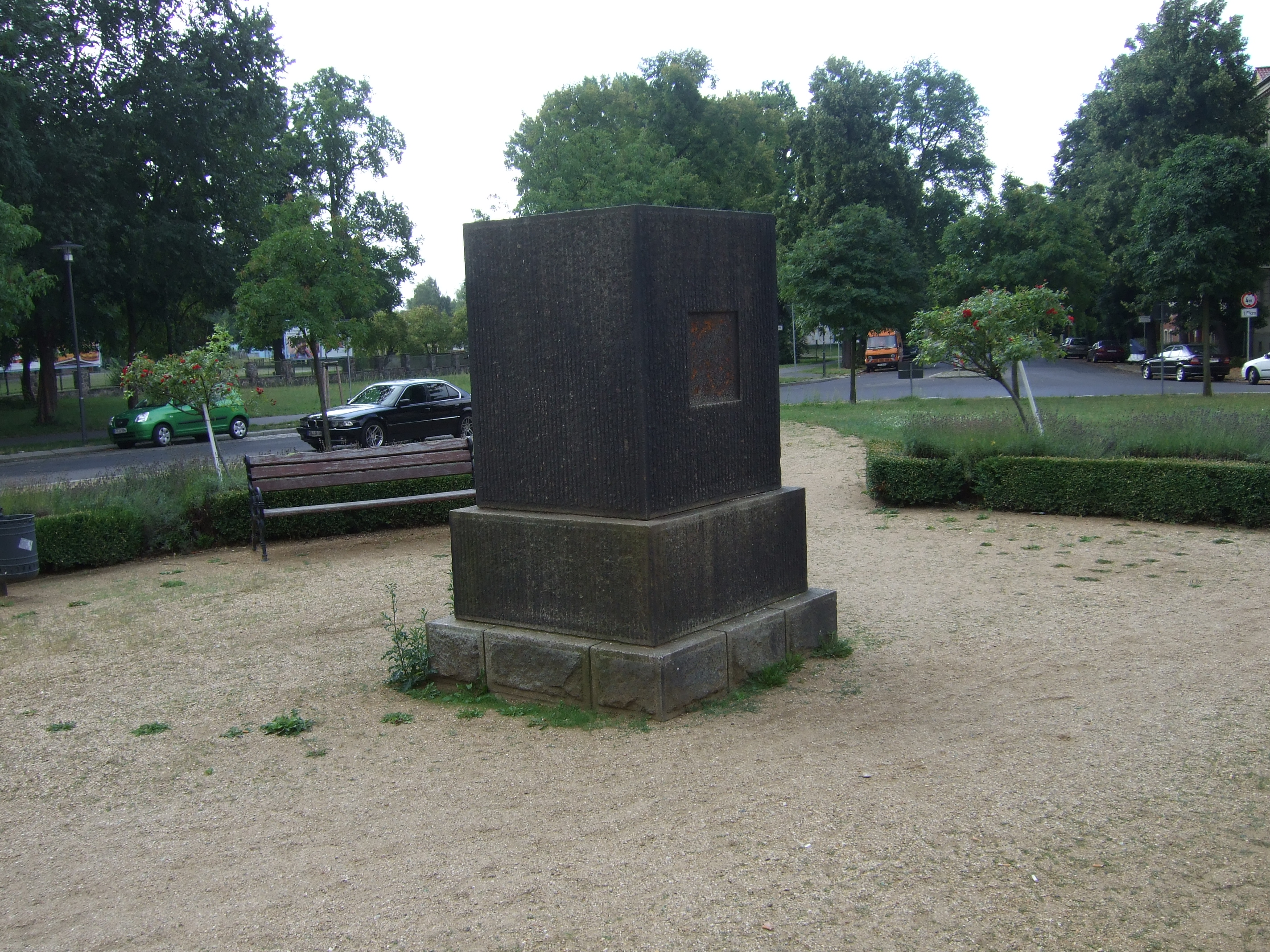 Pedestal of the lost memorial of the 2,000 victims of World War One of the Telegraphen-Bataillon Nr. 2 in Frankfurt (Oder), Germany.